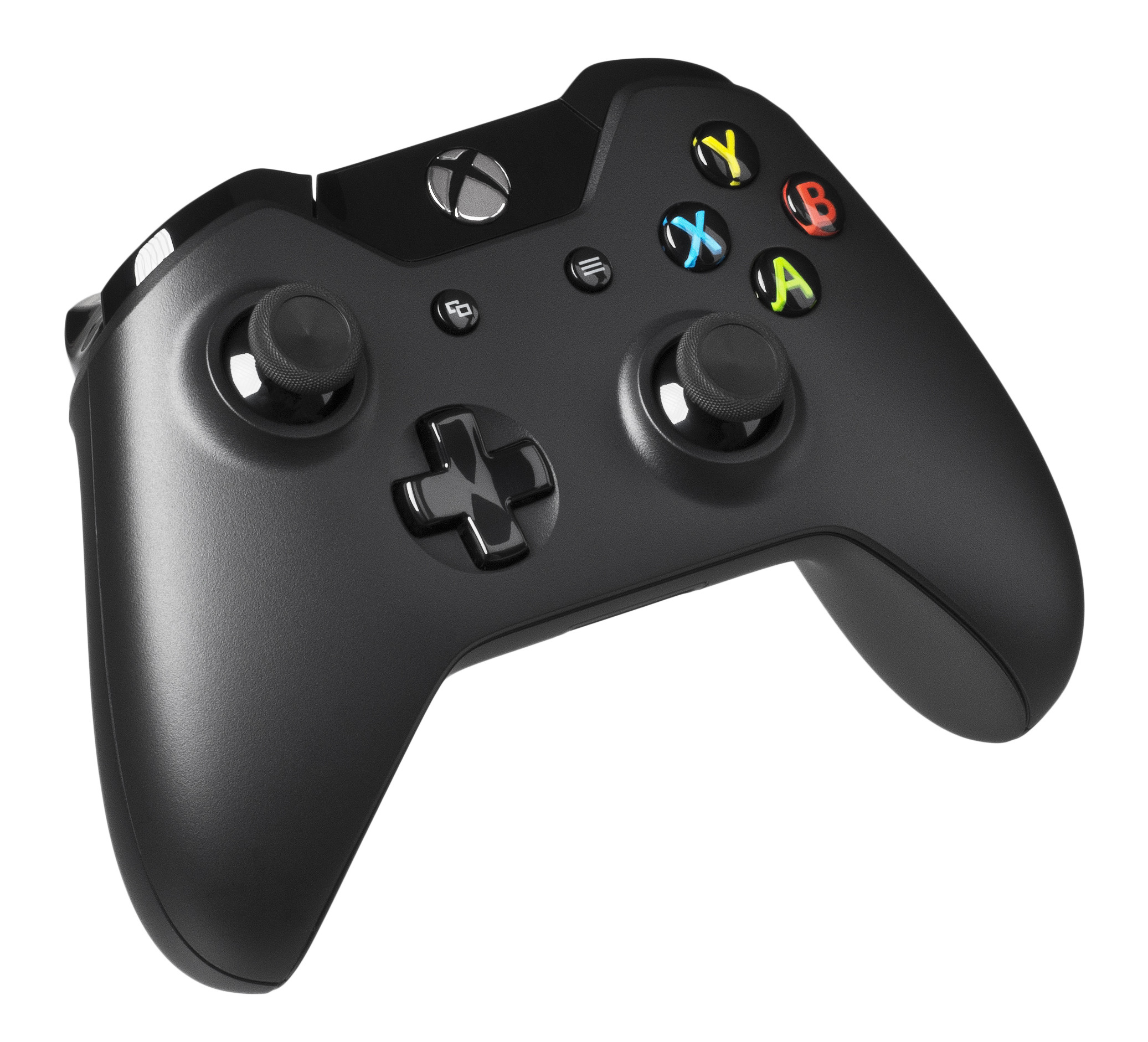 The Xbox One controller, included with the various editions of Microsoft's Xbox One console.